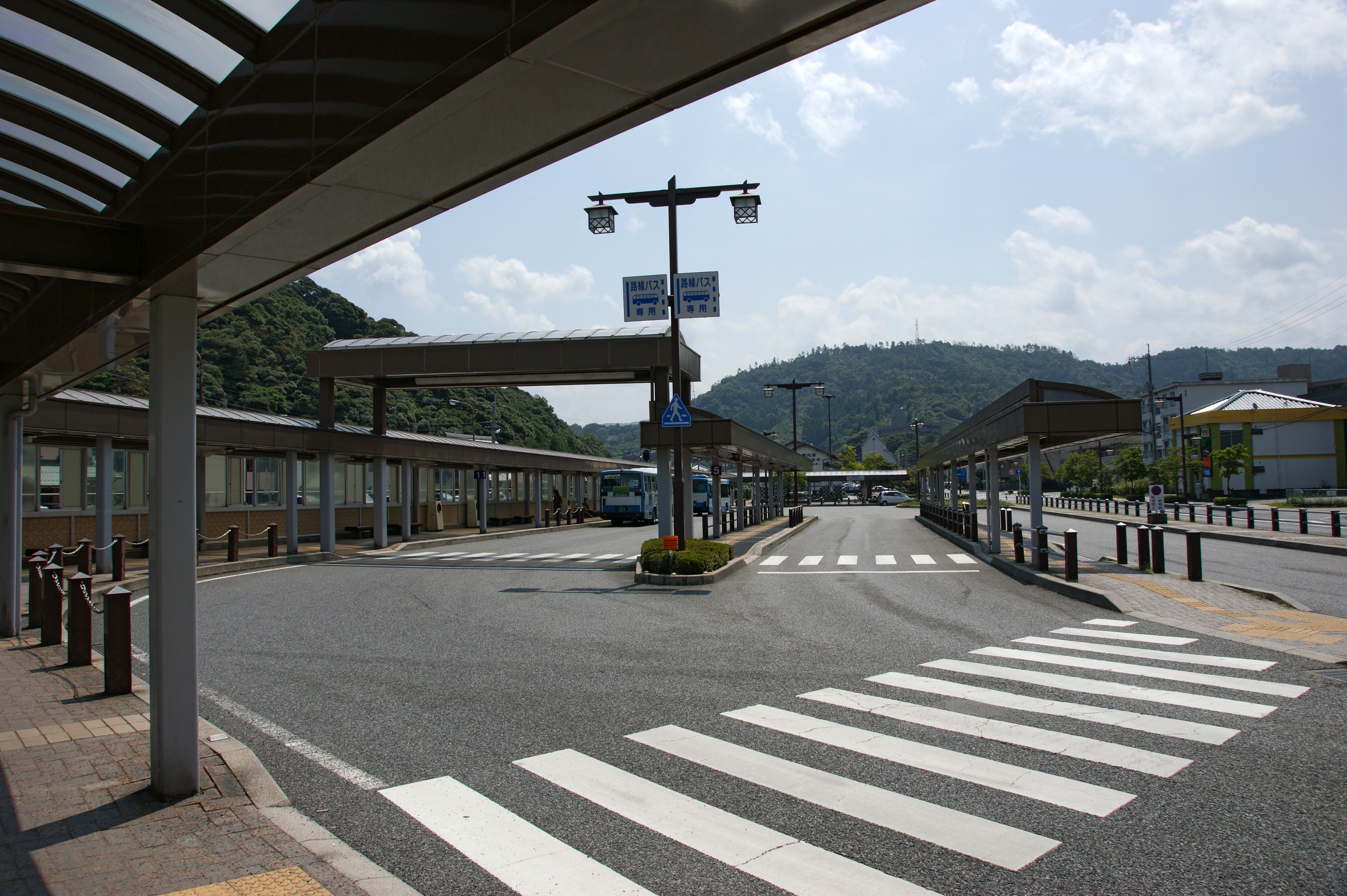 Kurayoshi Station in Kurayoshi, Tottori prefecture, Japan